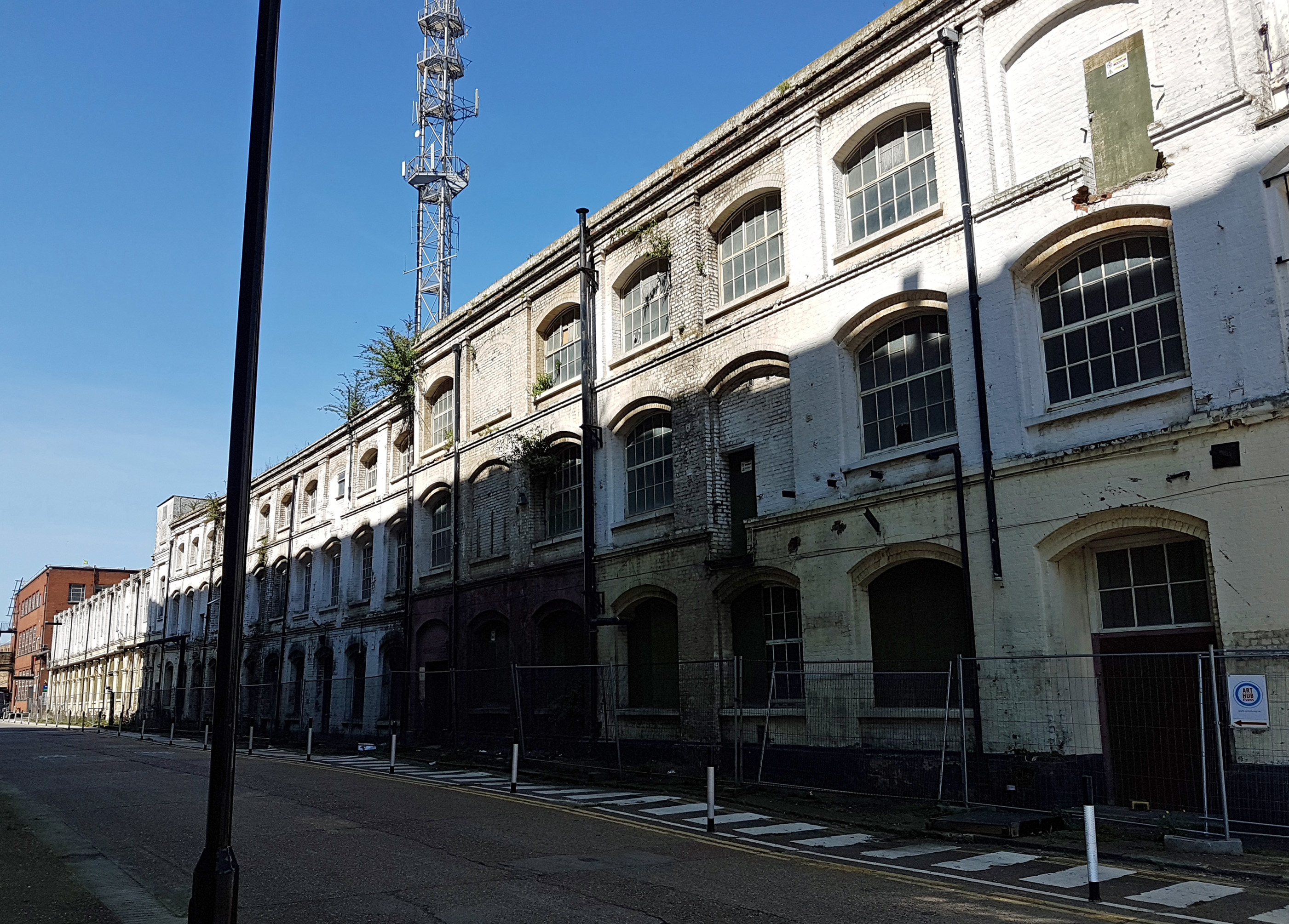 View of industrial buildings along Bowater Road in Woolwich, London, UK. This is the oldest surviving range of Siemens Brothers' cable works in Woolwich. The 2-storey section on the left dates from 1871, the central section from 1873 and the last 8 bays are from 1894.